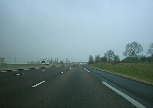 Author: Gregory Deryckère